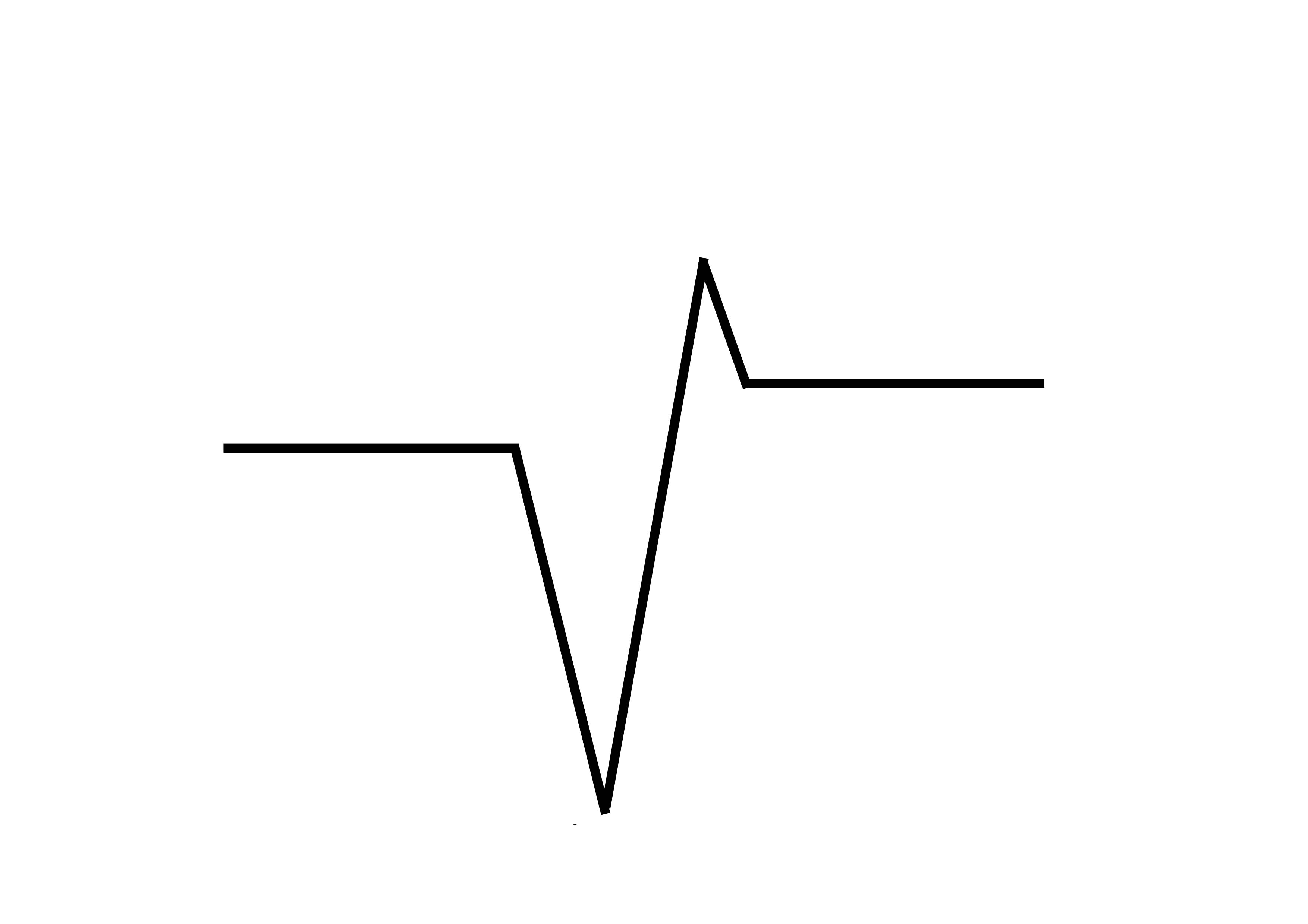 QR pattern in V1 (Kucher sing) in pulmonary embolism (after Nils Kucher, Nazan Walpoth, Kerstin Wustmann, Markus Noveanu, Marc Gertsch QR in V1 – an ECG sign associated with right ventricular strain and adverse clinical outcome in pulmonary embolism)